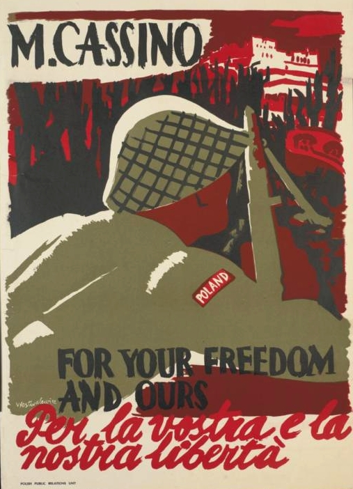 Polish propaganda poster "Monte Cassino. For your freedom and ours".